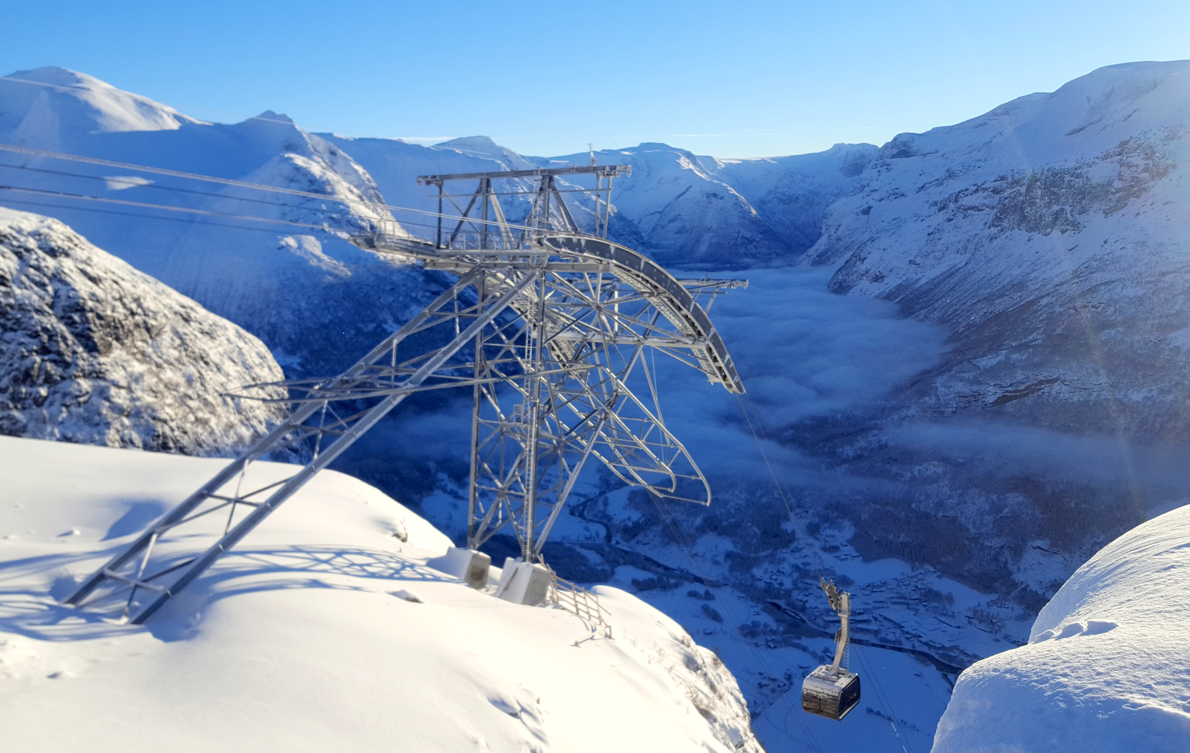 Cable car to mount Hoven (1011 m) over Loen. Opened for traffic May 20th 2017